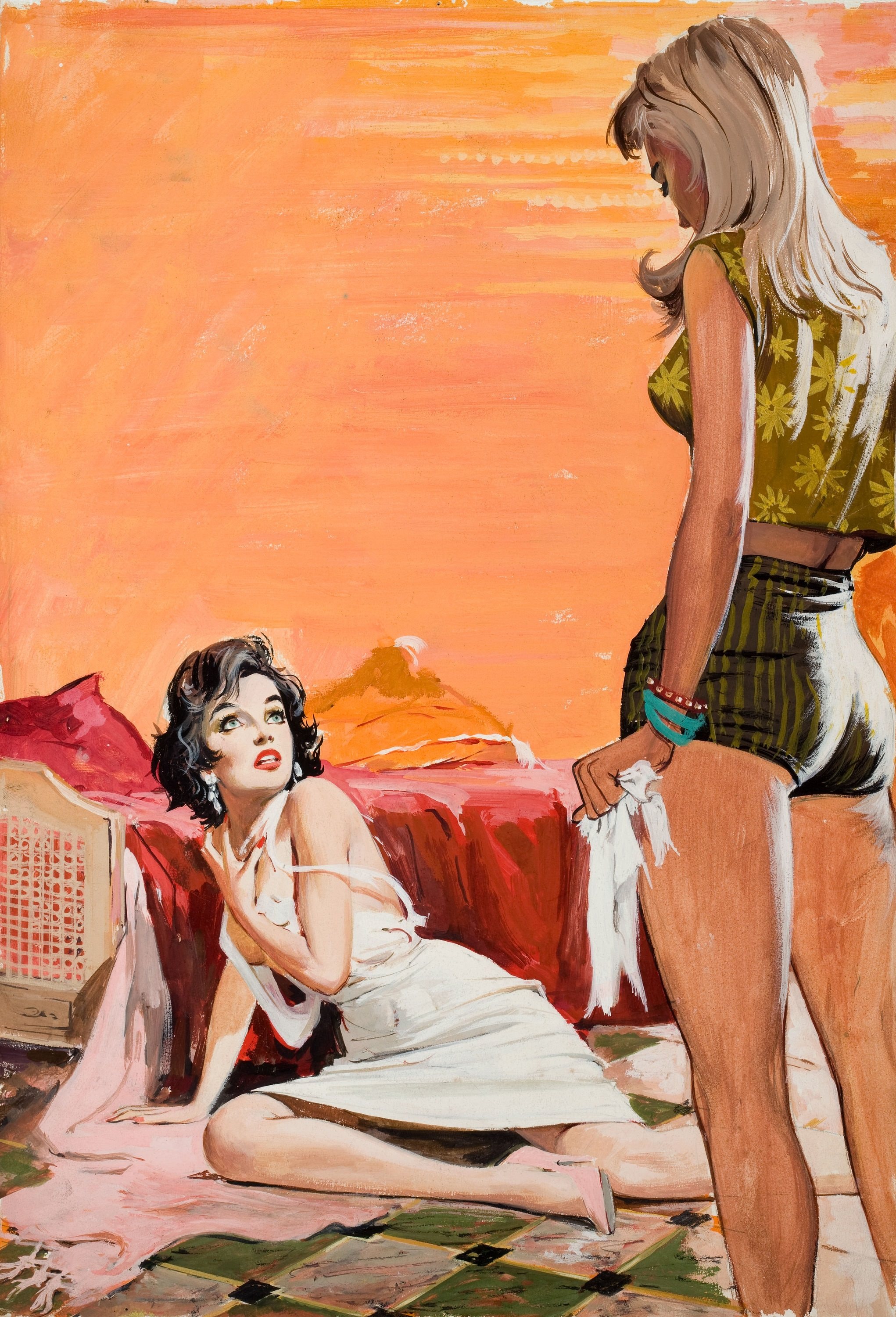 "By Love Depraved" by Darcy (Ernest Chiriaka / Ernest Chiriacka), 1961. Cover of "By Love Depraved" by Arthur Adlon (Keith Ayling).